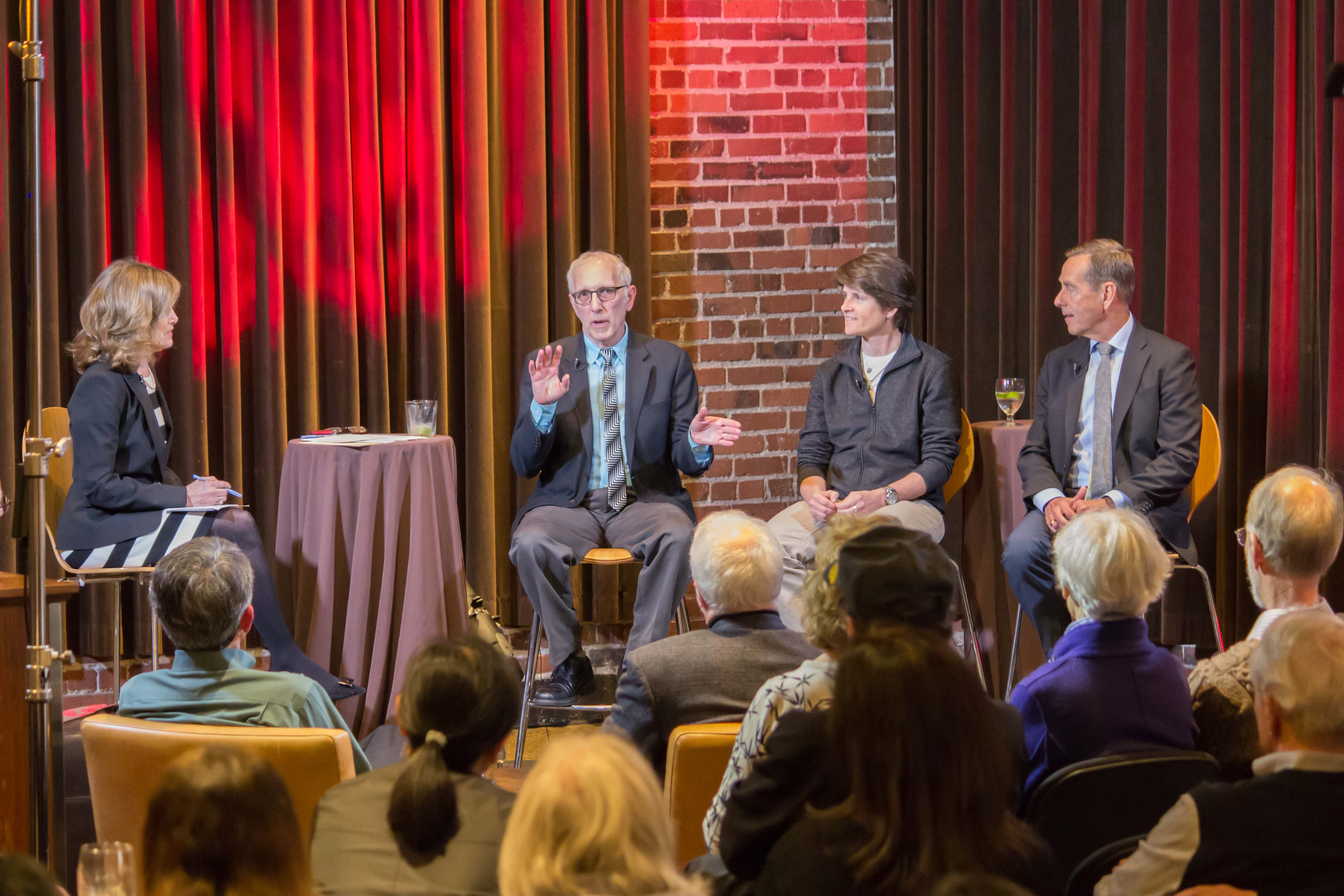 Civic Cocktail on the Seattle Channel. Host Joni Balter interviews three members of the Seattle City Council.